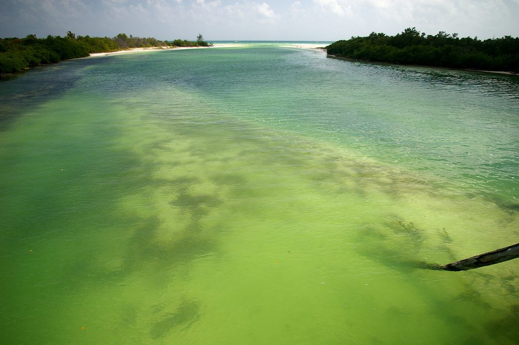 Biosphere Reserve of Sian Ka'an, located in state of Quintana Roo, Yucatán Peninsula, Mexico.